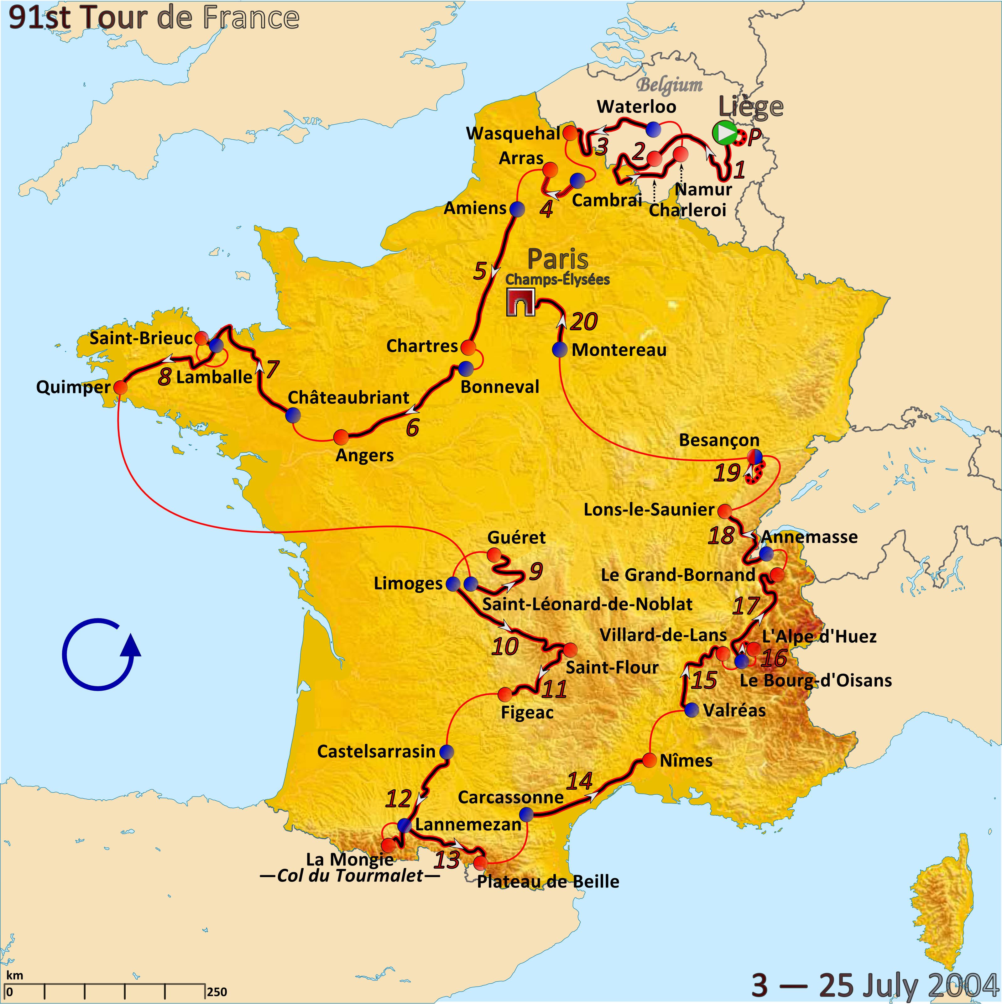 Map of the 2004 Tour de France created in Inkscape